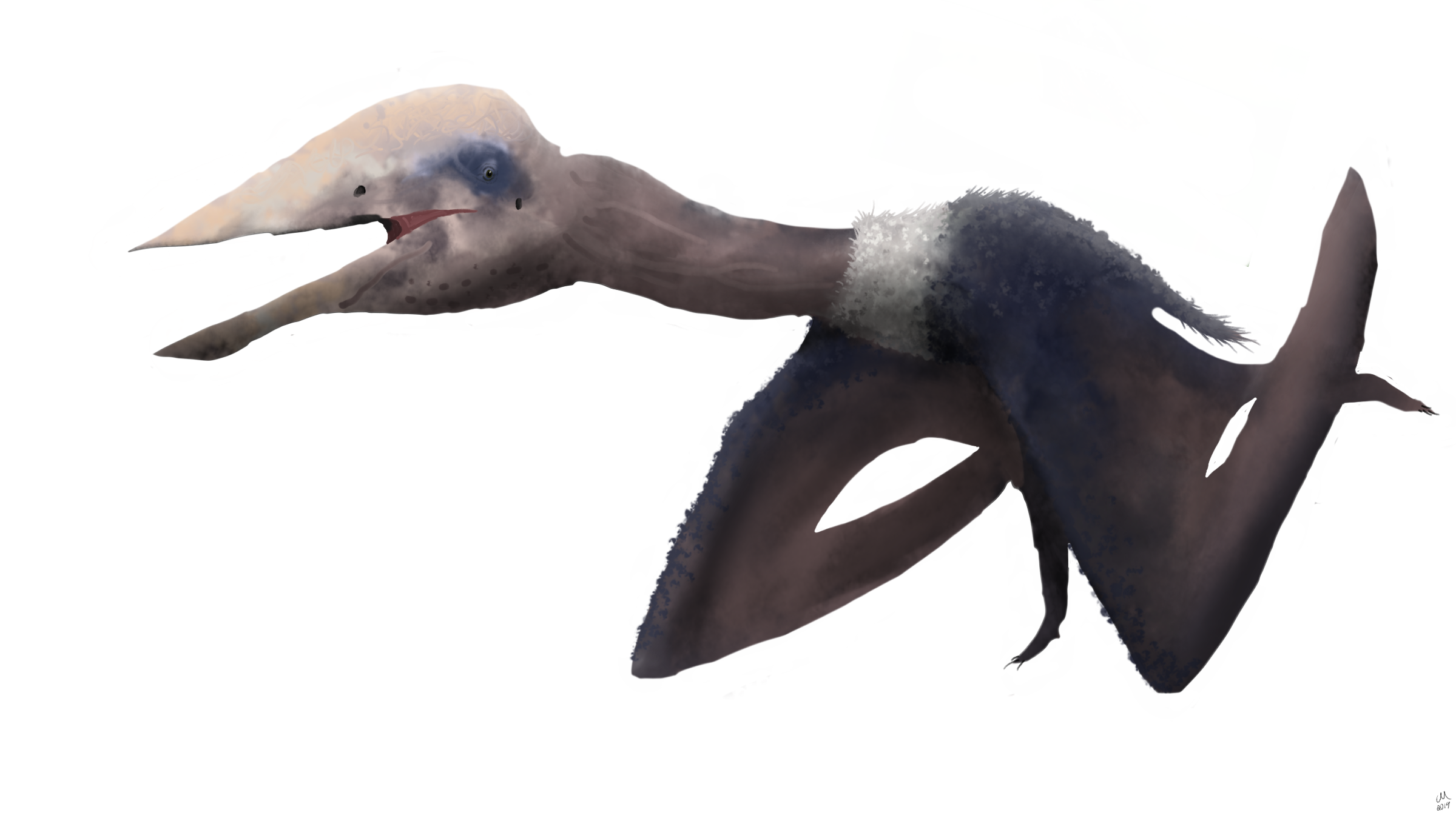 A reconstruction of the Mongol Giant Azhdarchid in a running gait.